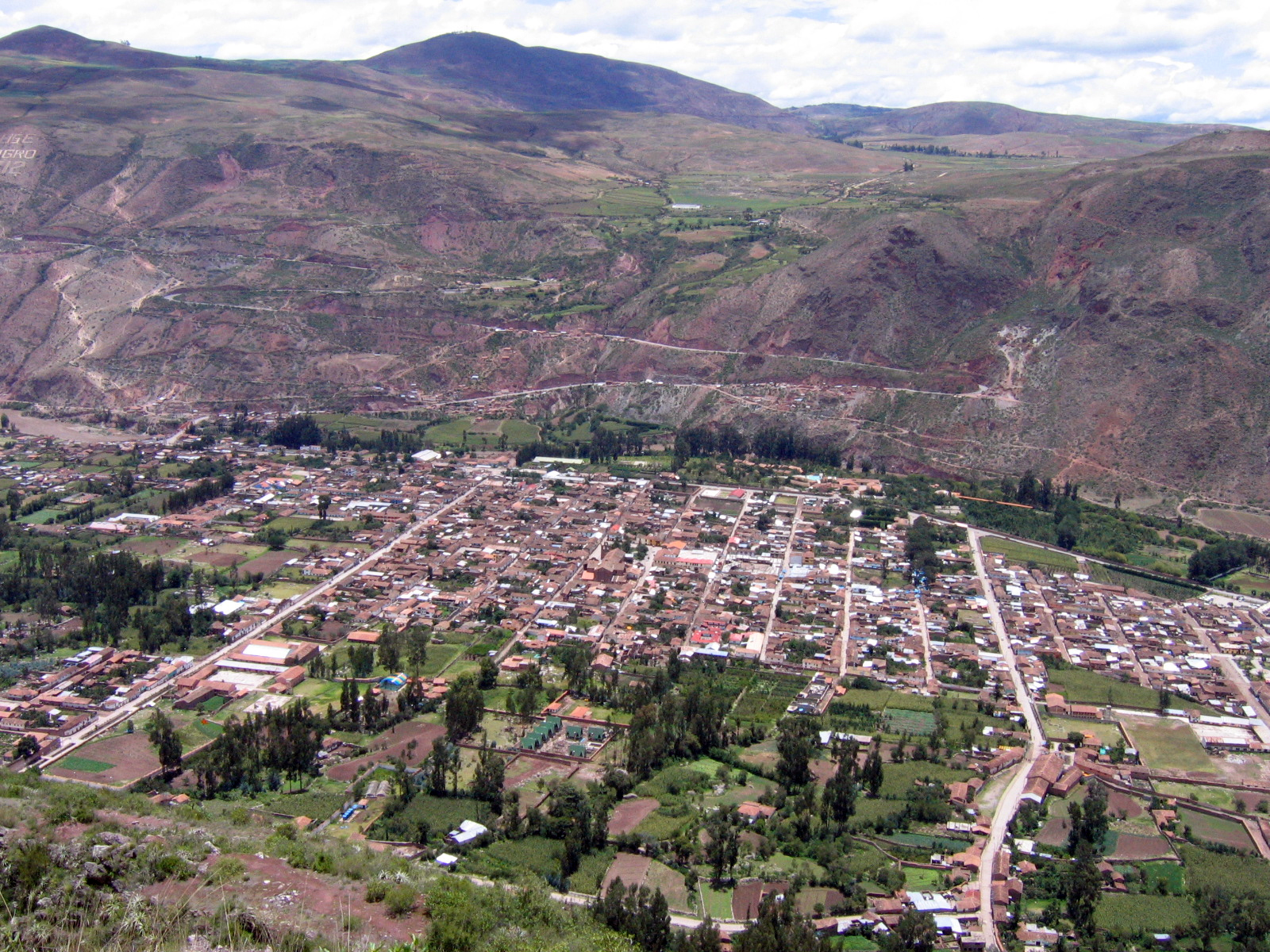 A shot of Urubamba town from the cross-peaked mountain inscrived Apna Alan.